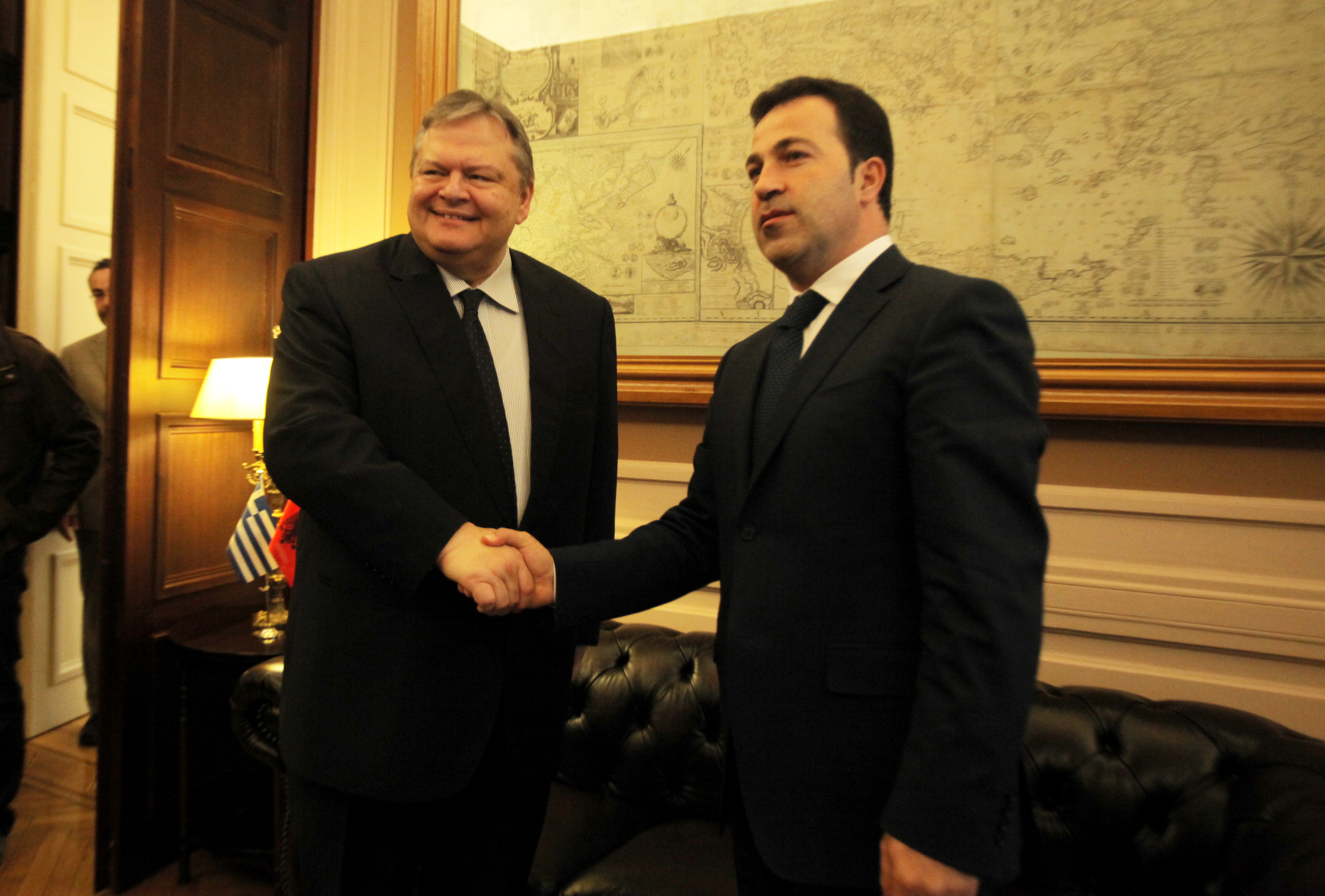 Former Greek Foreign Affairs Minister Evangelos Venizelos and Albanian Deputy Prime Minister Niko Peleshi at a meeting in Athens in November 2013.